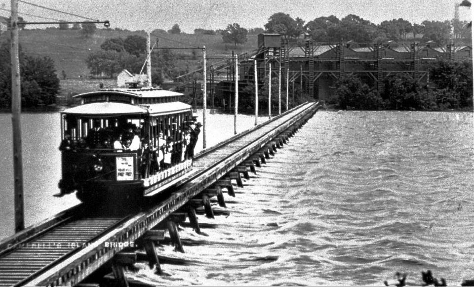 Cable car from Campbell's Island to Watertown (now East Moline)